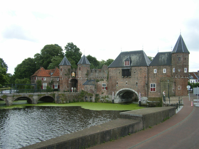 The Koppelpoort, Amersfoort, The Netherlands. Photo: Alex de Jonge